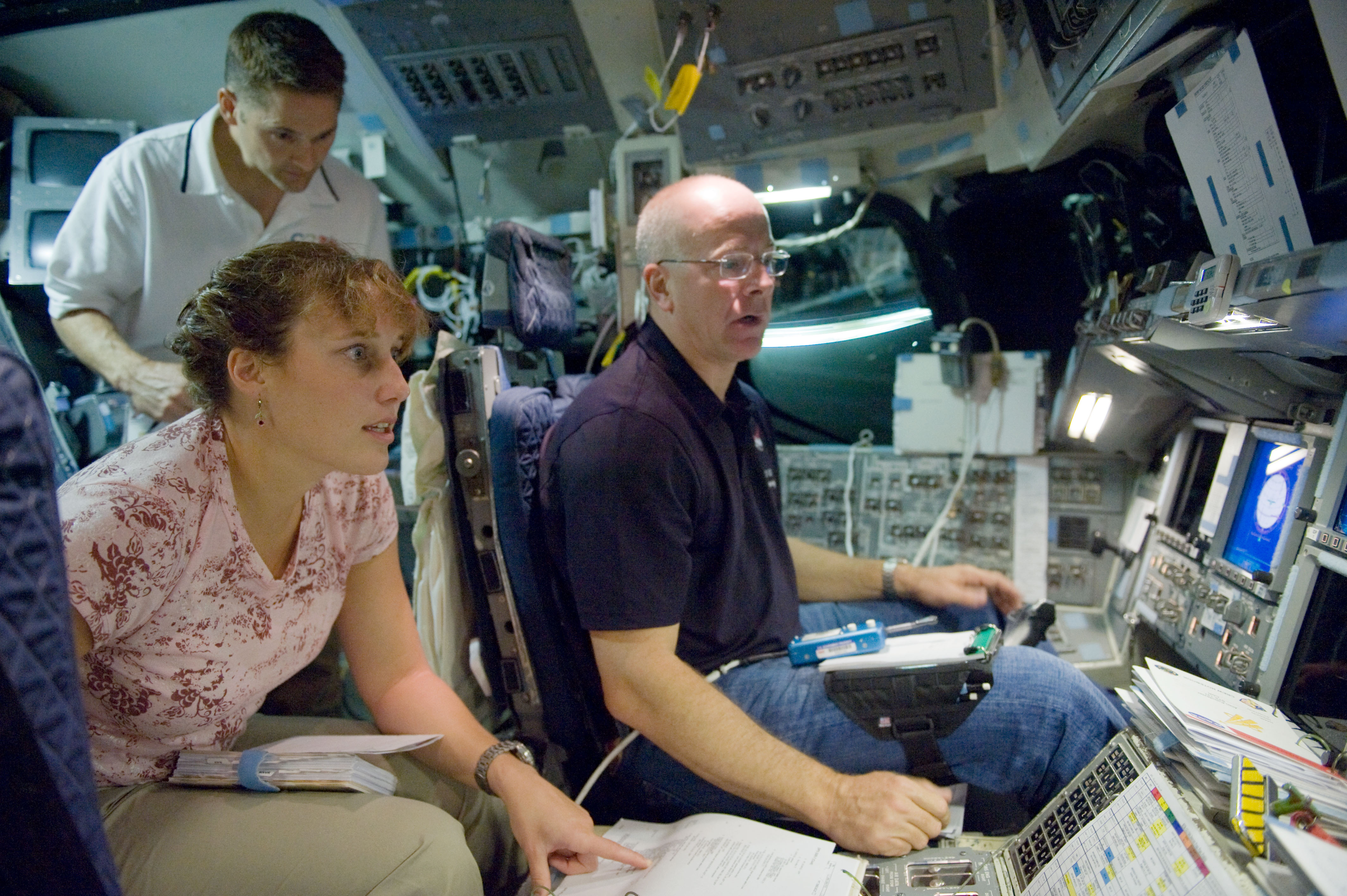 NASA astronauts Alan Poindexter (right), STS-131 commander; Dorothy Metcalf-Lindenburger, mission specialist; and James P. Dutton Jr., pilot, participate in a training session in the shuttle mission simulator (SMS) in the Jake Garn Simulation and Training Facility at NASA's Johnson Space Center.